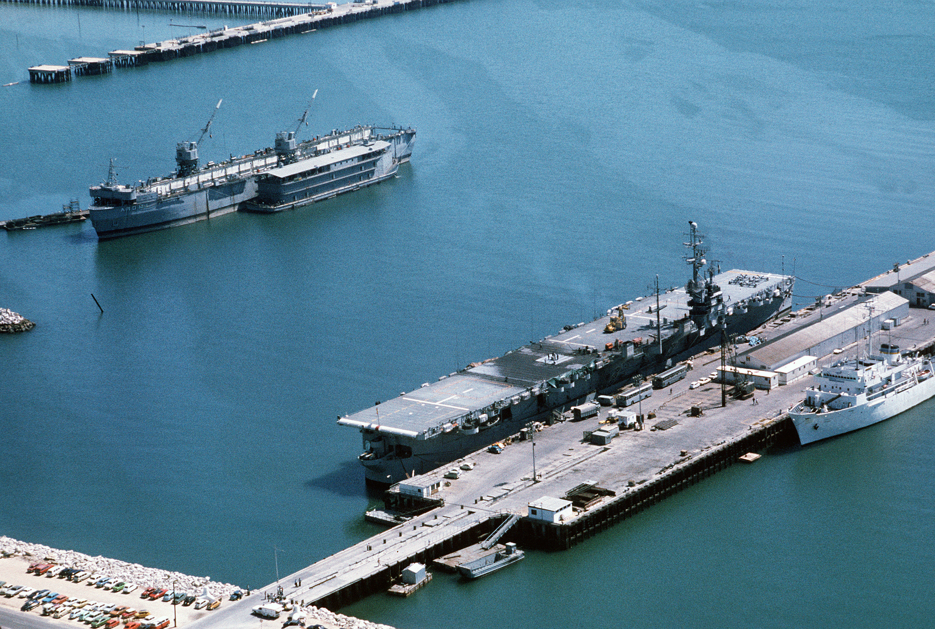 The Spanish navy aircraft carrier Dédalo (R01) tied up at a pier at the U.S. Naval Station Rota, Spain, in 1976. The U.S. Navy medium auxilliary repair dock Oak Ridge (ARDM-1) is in the background.